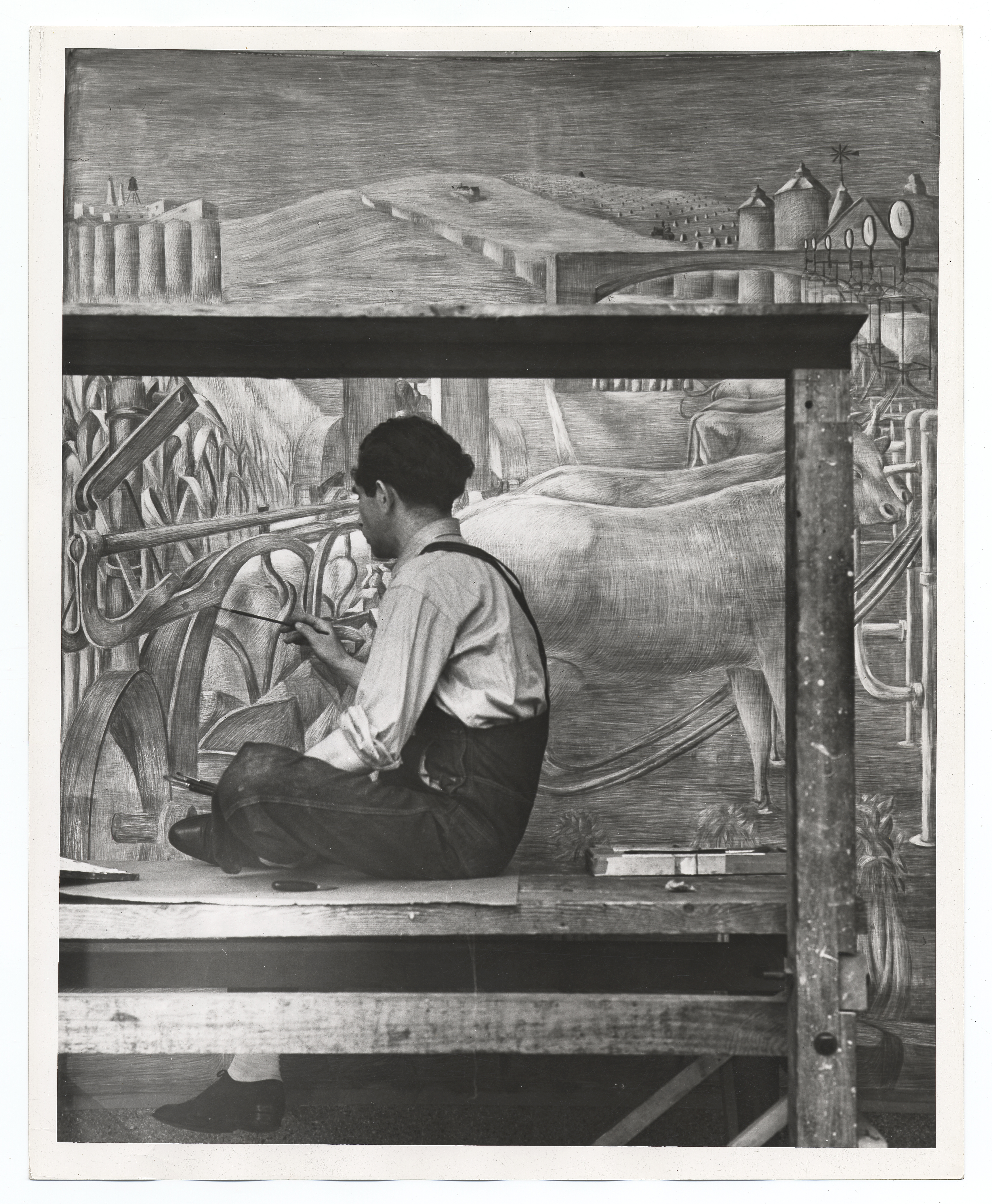 Margolis working on a mural for Bellevue Hospital. Identification on verso (handwritten and stamped): Project W.P.A.; Photographic Division; 110 King Street; New York City Negative No.: P4125-7; Date: 5/29/40; Photographer: Shalat; Artist: Margolis, David; Location: Bellevue Hospital, TB Pavillion